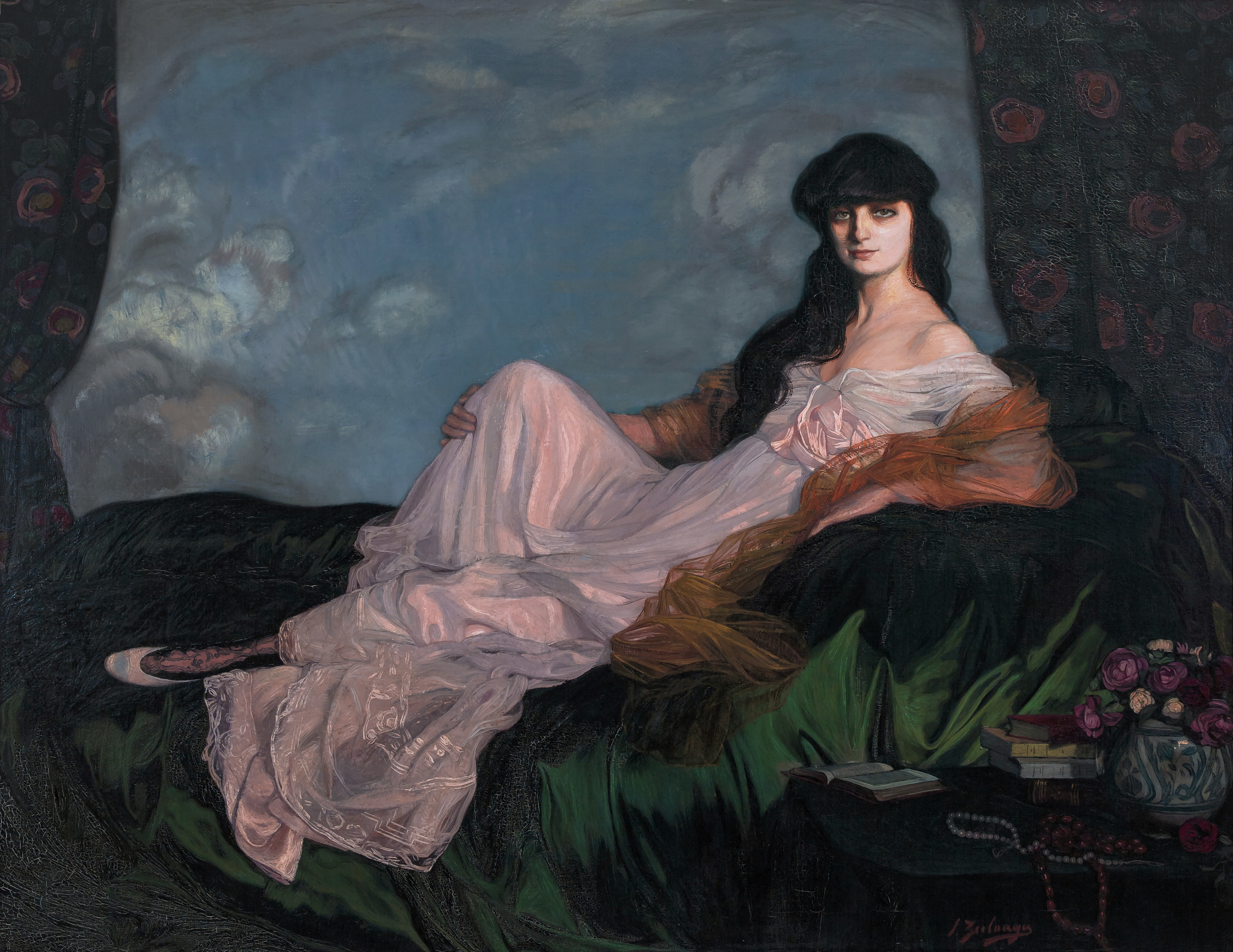 Countess Mathieu de Noailles, Anna Elisabeth de Brancovan oil on canvas 152 x 195.5 cm signed b.r.: I. Zuloaga 1913